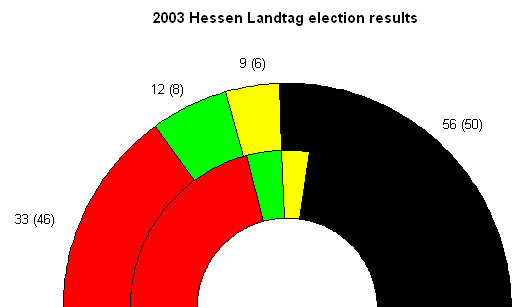 Results of the 2003 Landtag election in Hesse SDP in red, CDU in black, Greens in green, FDP in yellow Created by Willhsmit.